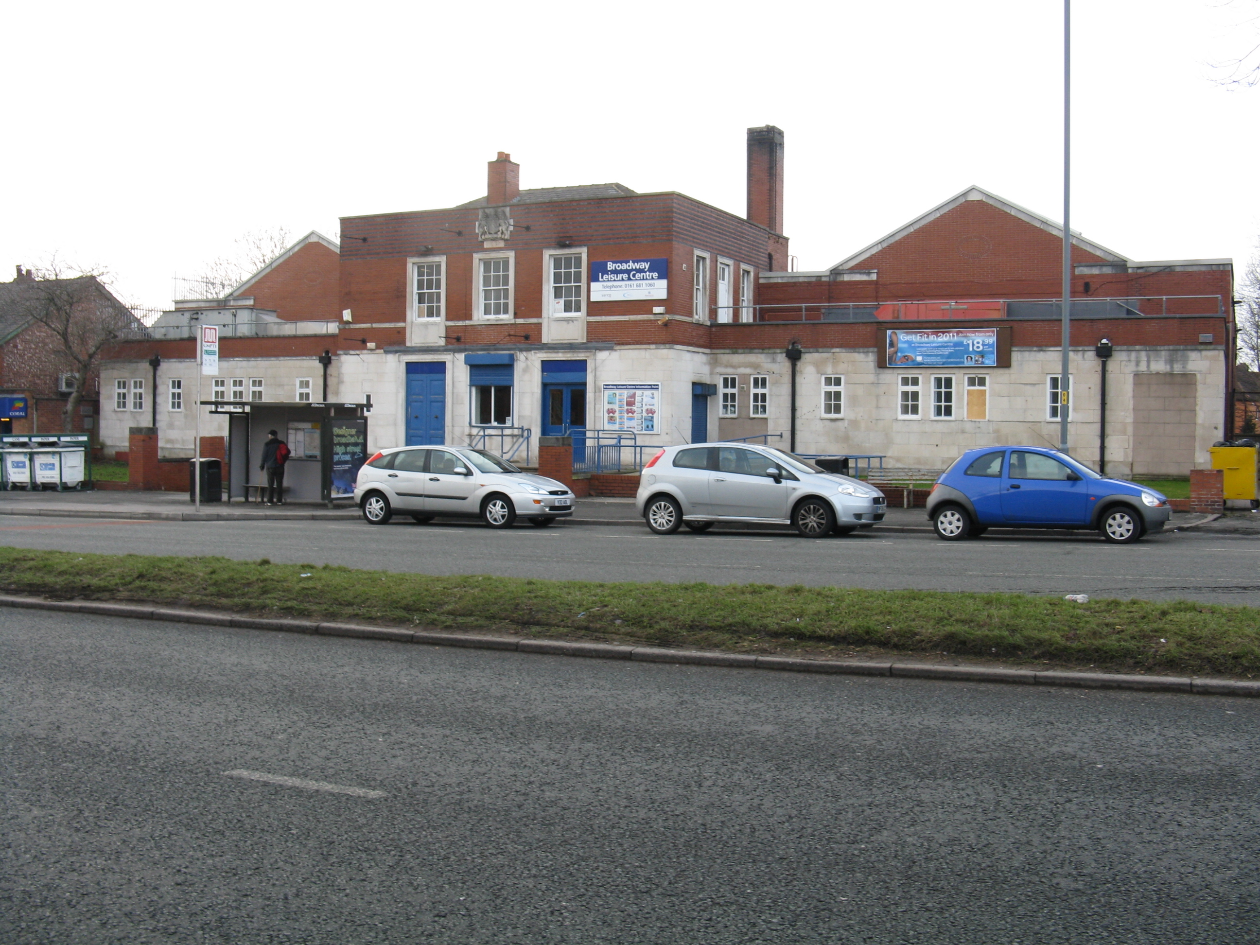 Broadway Leisure Centre